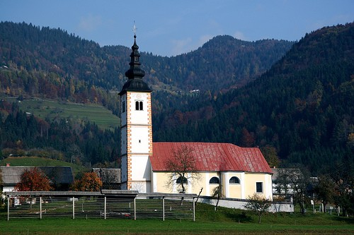 Church, Jereka, Slovenia, 2005. Taken by Nick Fraser.